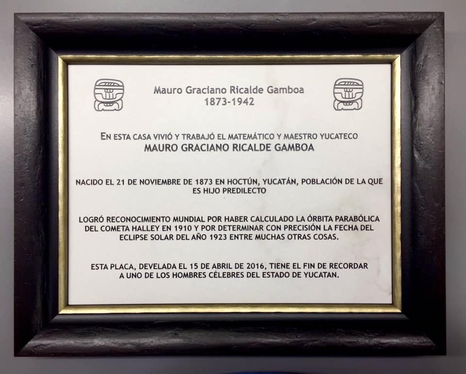 Exacting replica of the plaque that is mounted outside the boutique hotel in Merida.